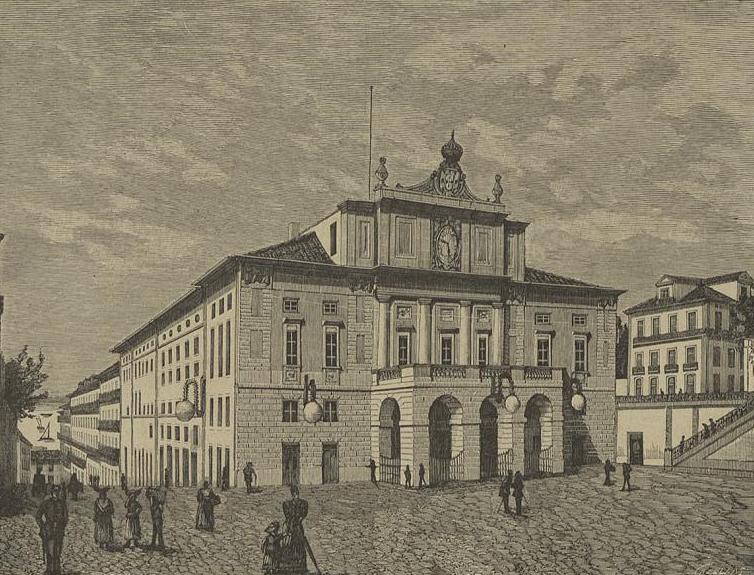 St. Charles's National Theatre (at the time called "St. Charles Royal Theatre"), in 1893.